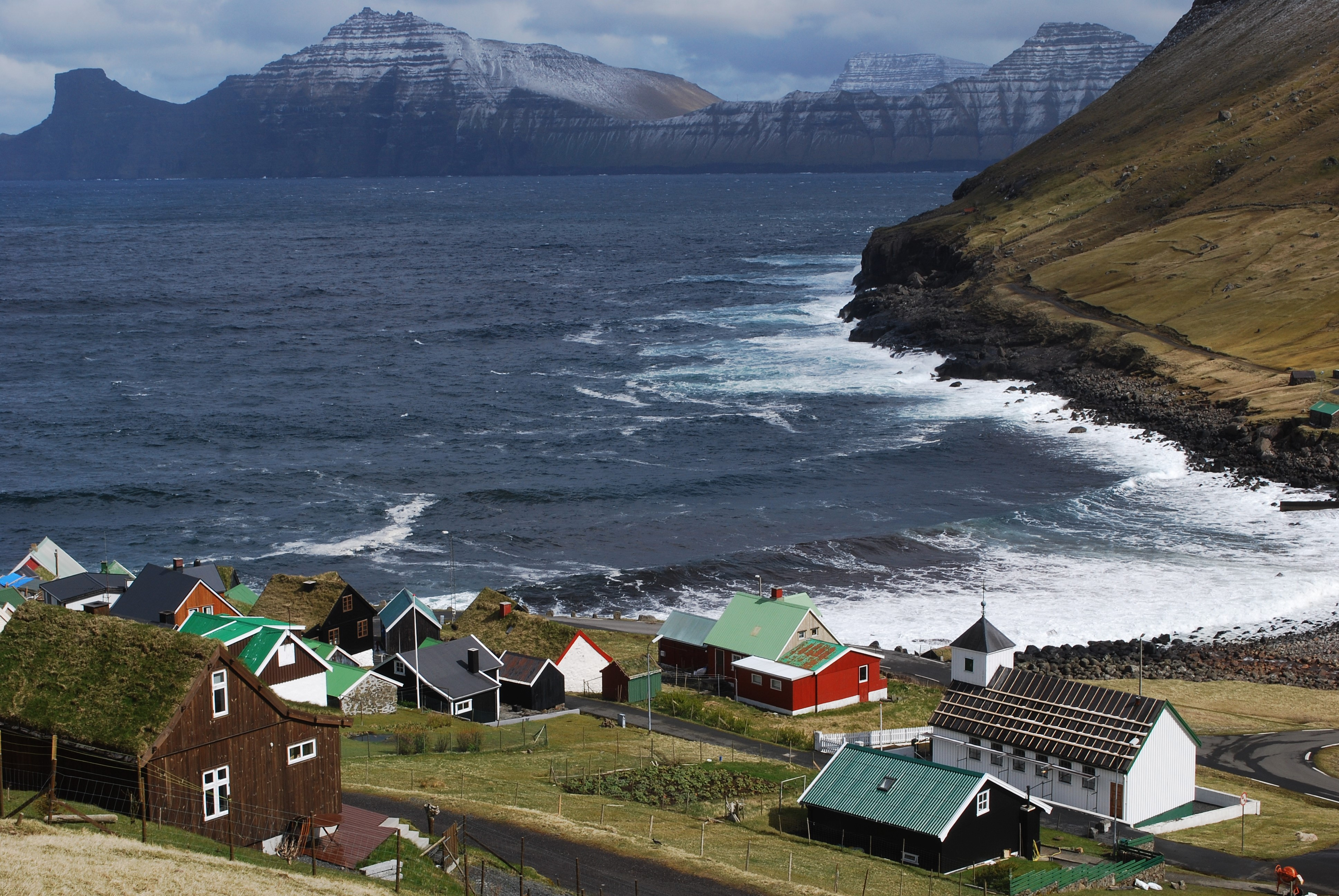 Elduvík, Eysturoy. Faroe Islands